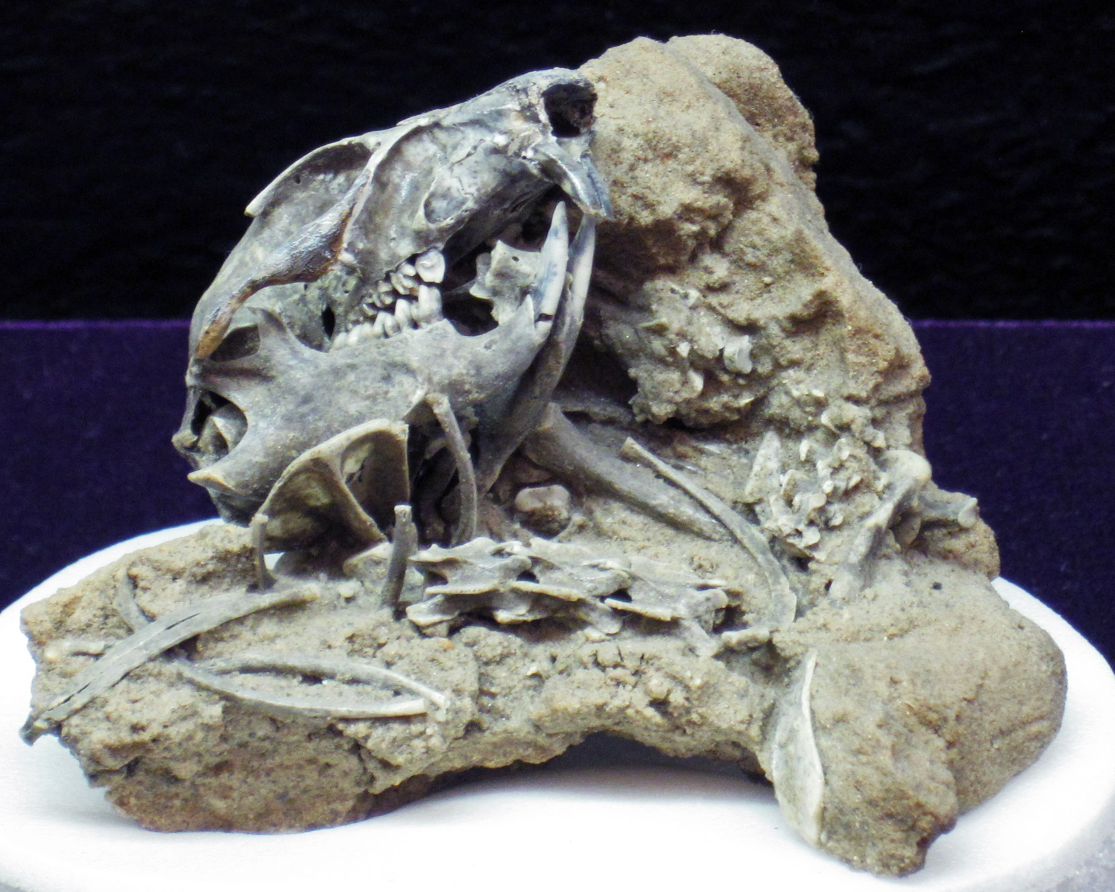 Spermophilus richardsonii (Sabine, 1822) - fossil ground squirrel skeleton from the Pleistocene of Nebraska, USA. (Nebraska State Museum of Natural History, Lincoln, Nebraska, USA) This species is also known as Urocitellus richardsonii. From museum signage: "Ice Age ground squirrel which died in its burrow Dundy County 10,500 years old (Pleistocene) This is one of the youngest fossils in our collection. To be considered a fossil, a specimen must be at least 10,000 years old. Carbon-14 dates on this specimen barely exceed this. The skeleton is similar to that of living Richardson's ground squirrels living in the Rocky Mountains and northern Great Plains today. " Classification: Animalia, Chordata, Vertebrata, Mammalia, Rodentia, Sciuridae Locality: unrecorded/undisclosed site in Dundy County, southwestern Nebraska, USA See info. at